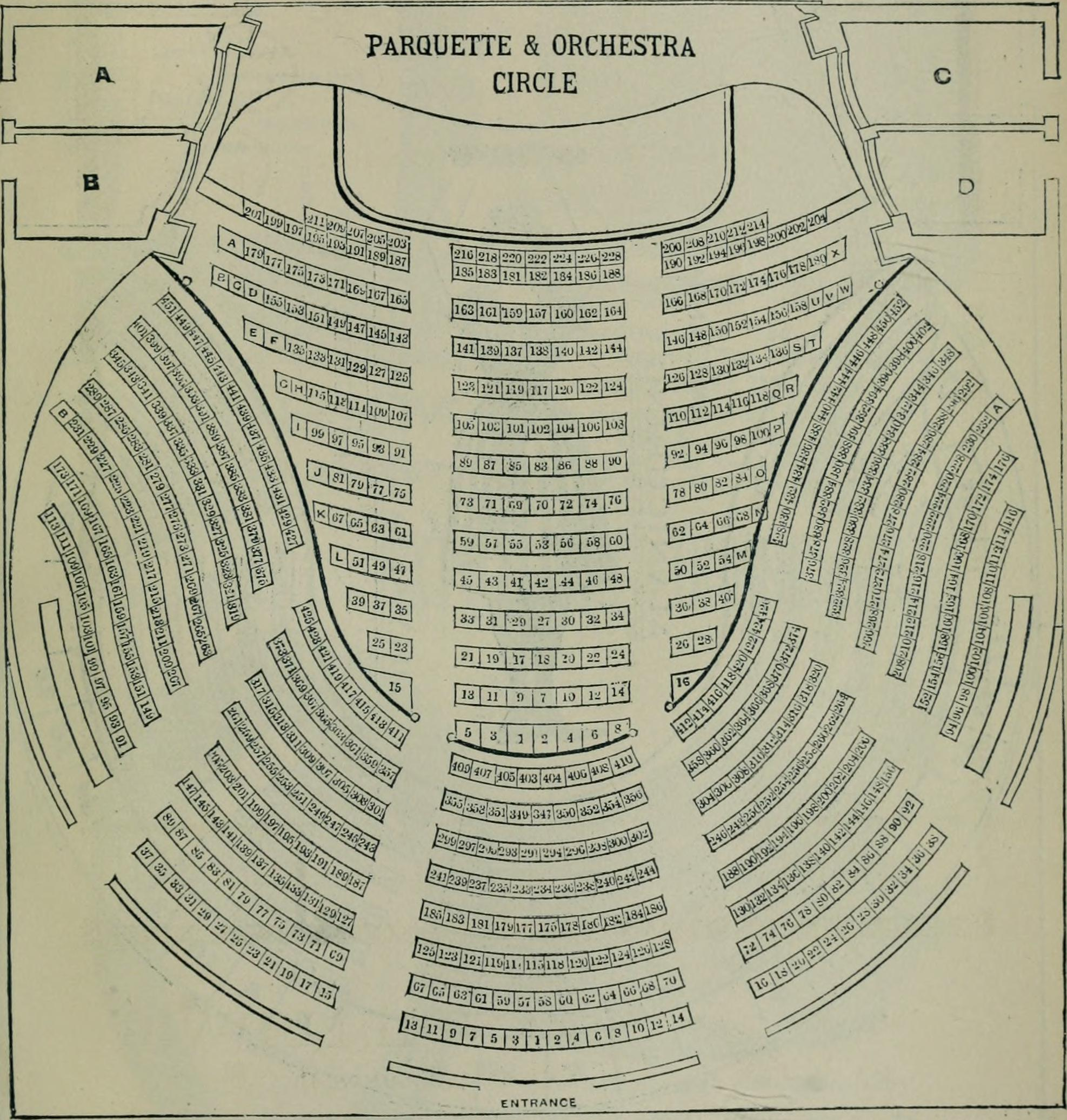 Grand Opera House, San Francisco Title: San Francisco blue book and Pacific Coast elite directory Year: 1890 (1890s) Authors: Subjects: Publisher: San Francisco : Bancroft Co. Text Appearing Before Image: ERNST H. LUDWIG THE MODEL AMERICAN CA TERER 1206 SUTTER ST. TELEPHONE 2388 Supplies Wedding Breakfasts, Luncheons, Dinners,Matinee Teas and Receptions on Shortest Notice.Also Terrapin, Entrees for Luncheons and Dinners,Ice Cream, Cakes, Etc. 414 Get a Box of NORTONS FINE CANDIES befora going to the Theatre Text Appearing After Image: GRAND OPERA HOUSE. MAIN FLOOR 415 416 TIIKATKK HIACKAMS